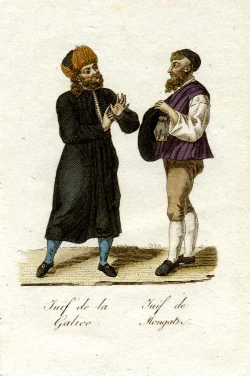 Traditional dress of Jews from western Ukraine - Jew from Galicia (Lviv / Ternopil area of western Ukraine) and Jew from Mukachevo (former Mongatz / Munkacs) in Zakarpattia (Transcarpathian) region of westernmost Ukraine. Postcard of 1821.